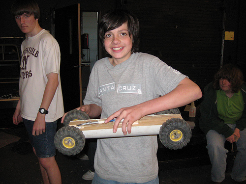 A student at Northfield School of Arts and Technology and his mousetrap-powered car.